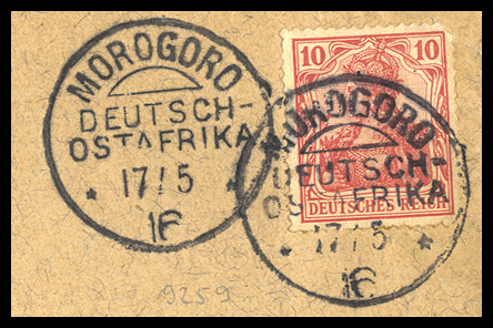 Germania postage stamp of German empire double cancelled in Morogoro, German East Africa, as Konigsberg provisional issue, 10 pfennigs (used as 7½ hellers), 17 May 1916